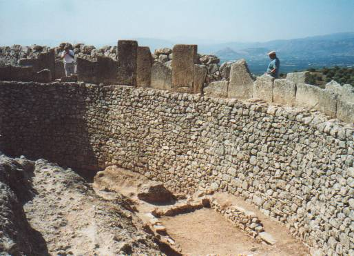 Tomb at Mycenae, Greece.